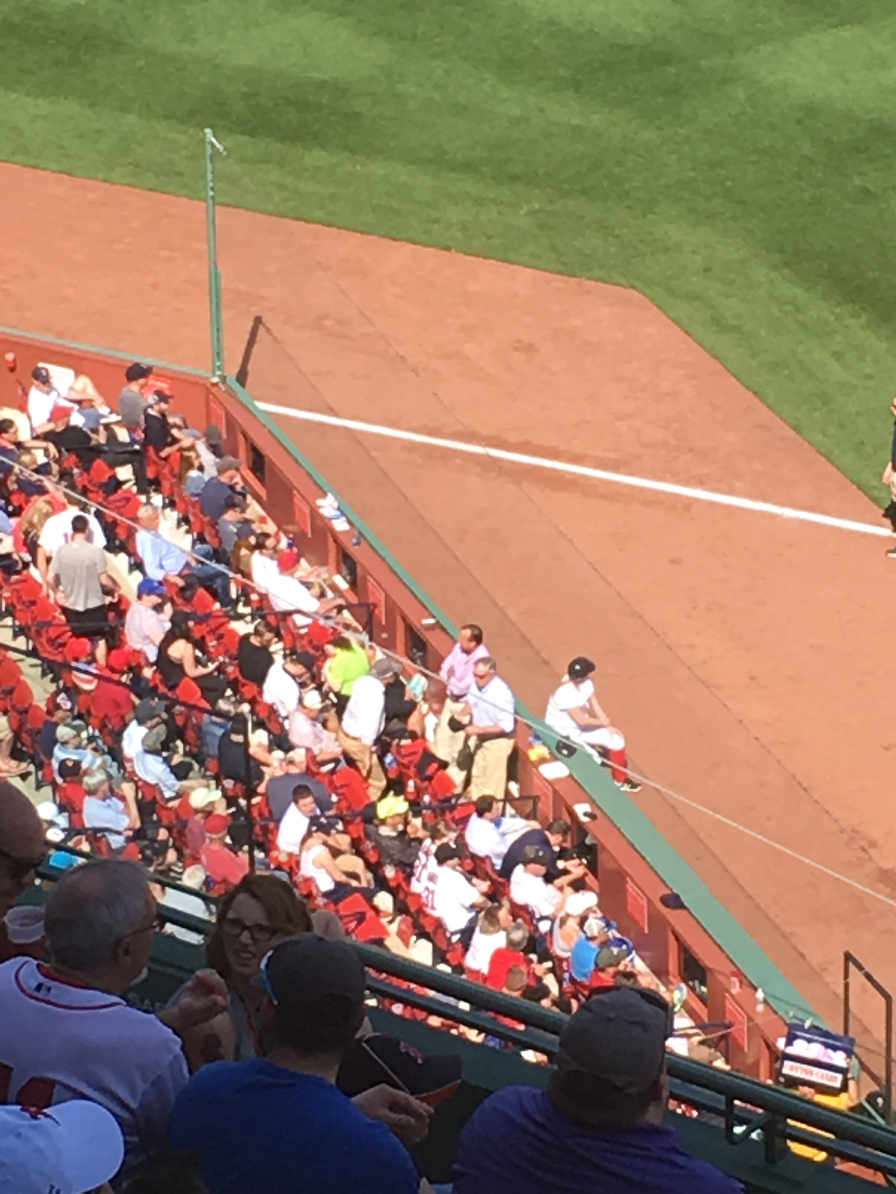 View of safety netting near the third base line at Fenway Park in May 2018.